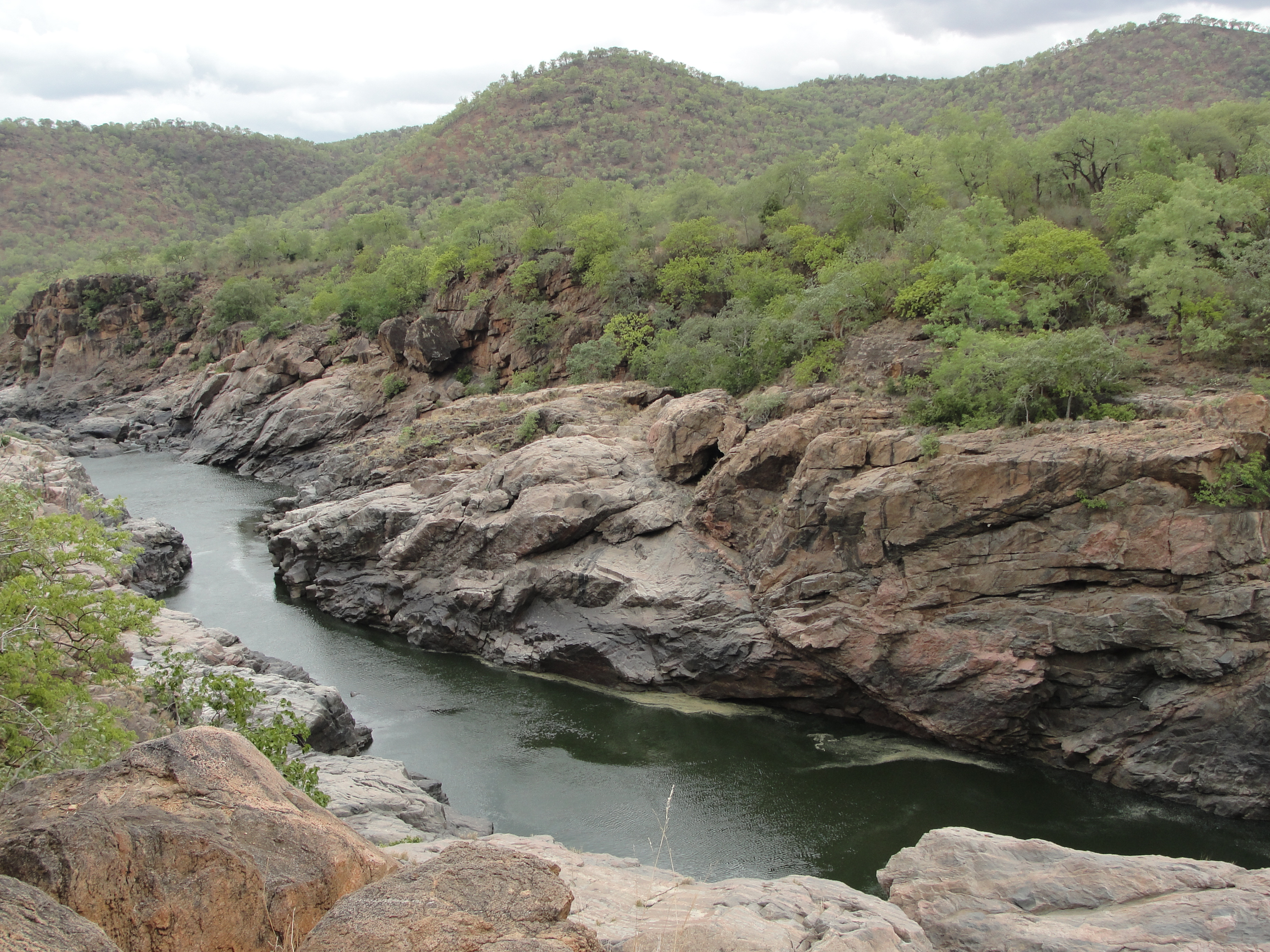 Mekedatu,Karnataka,in summer : Cauvery river dries up during summer.